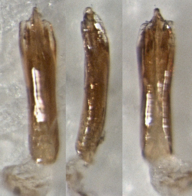 aedeagus of adult male Cis boleti (det. C. Lopes-Andrade, 1 Dec 2010)